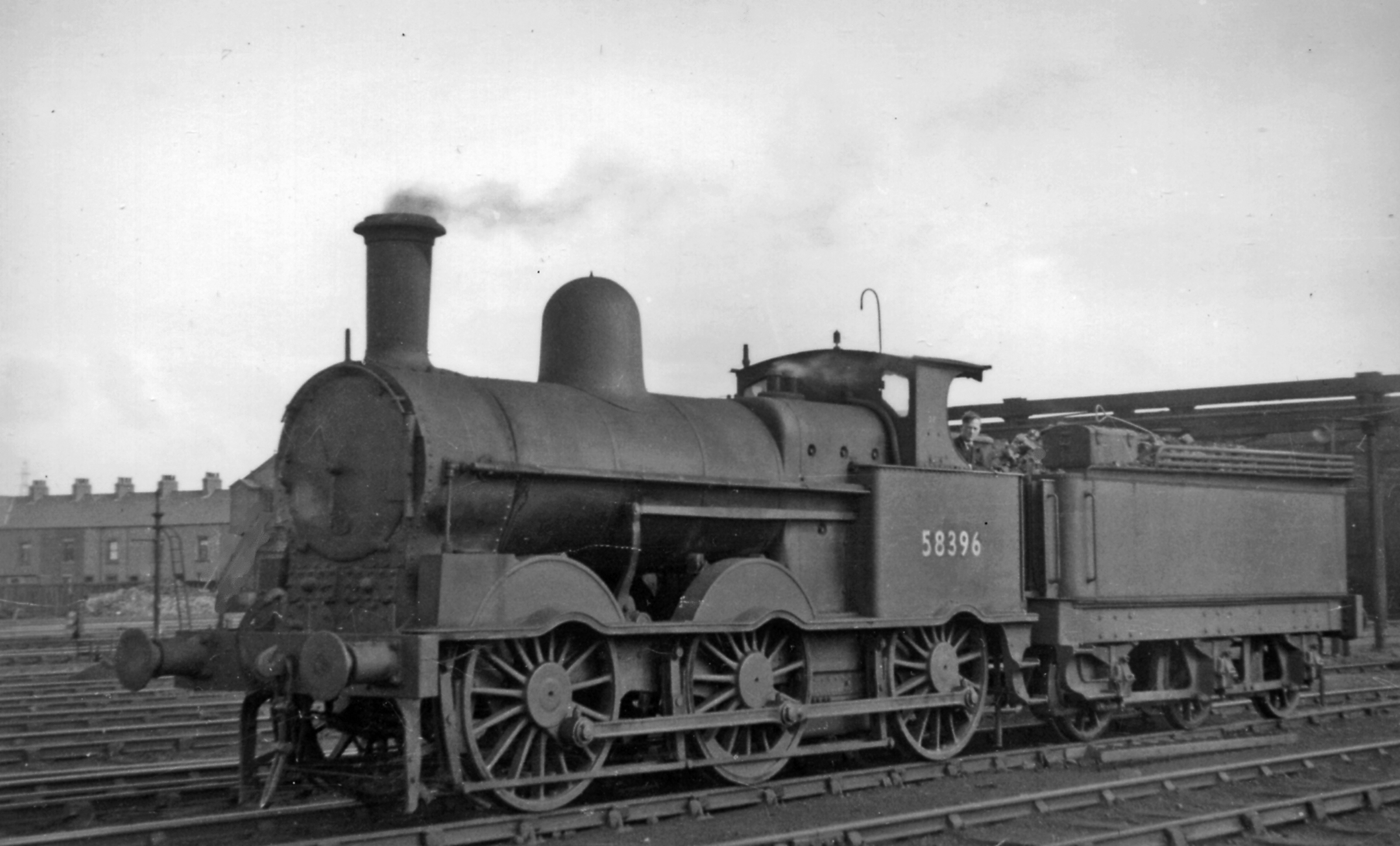 Ex-LNW '18" Goods 2F 0-6-0 at Workington Locomotive Depot. No. 58396 (former LMS No. 28512) was one of many Webb 'Cauliflower' 2F 0-6-0s that before Nationalisation had dominated the passenger and freight traffic on the Cockermouth, Keswick & Penrith line; it was one of the last survivors of the 310 (built 1880 - 1902) when withdrawn in 9/53.